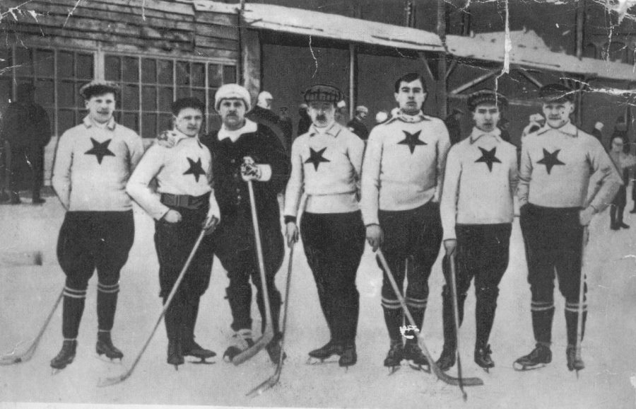 Bohemia national ice hockey team in 1909. From the left: Otakar Vindyš, Boleslav Hammer, Josef Gruss, Jan Fleischmann, Jaroslav Jarkovský, Jan Palouš a Ctibor Malý.